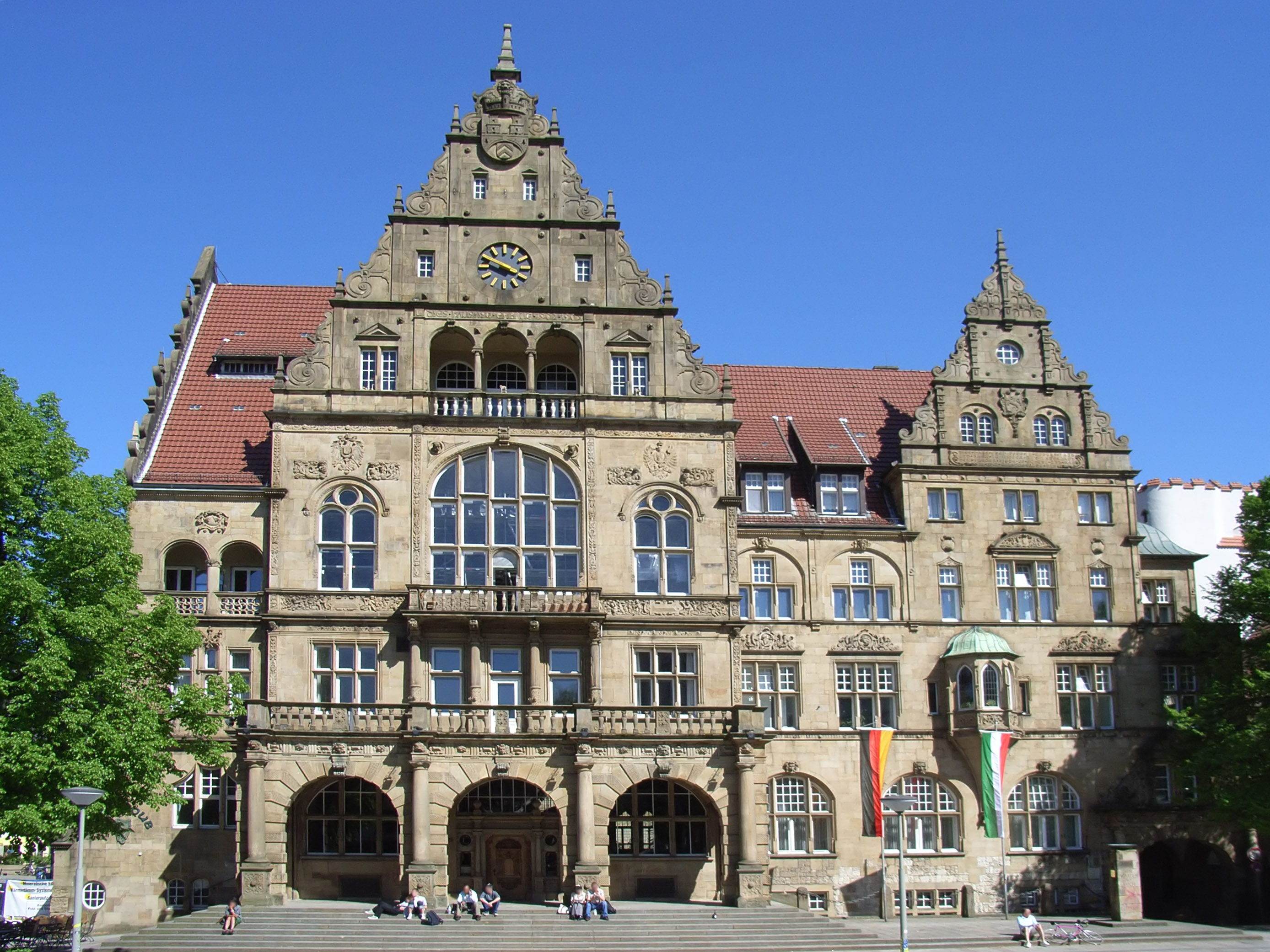 Bielefeld, Germany: Historical City hall